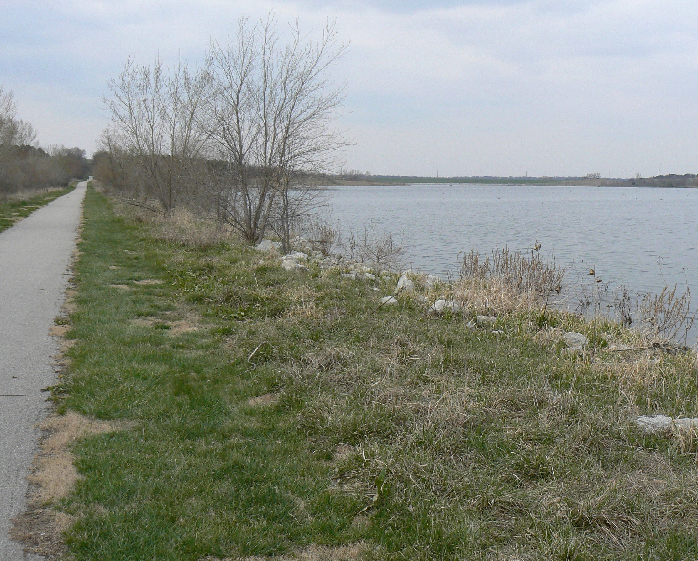 Trail alongside Wehrspann Lake at Chalco Hills Recreation Area